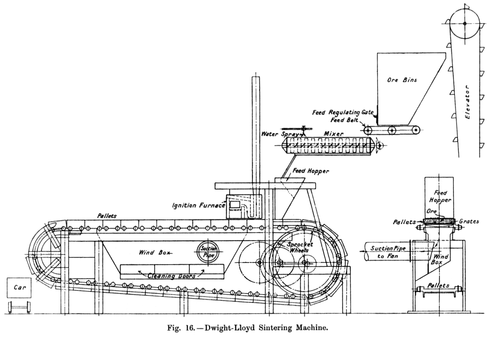 Sketch of a sintering Dwight-Lloyd sintering machine, as used for sintering copper ore. There is no difference with a sinter strand designed to process other ores.